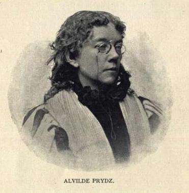 The Norwegian author Alvilde Prydz (1848-1922)